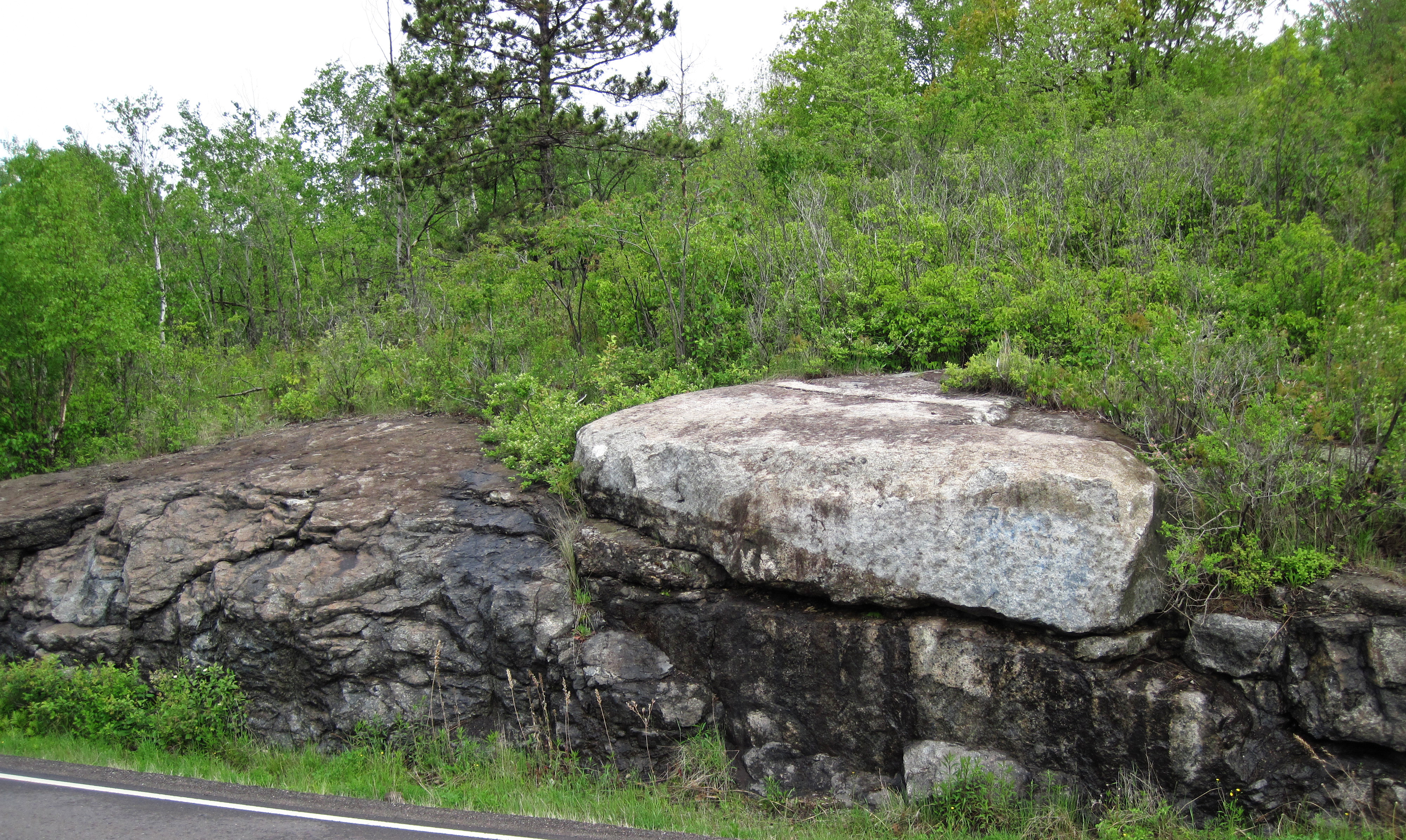 Large anorthosite xenolith in ophitic ilmenite gabbro in the Precambrian of Minnesota, USA. These rocks are part of the widespread Duluth Complex, a ~1.1 billion year old suite of igneous rocks in northeastern Minnesota that is associated with volcanism in the Lake Superior segment of the ancient Mid-Continent Rift System. The dark-colored rocks are gabbro. The light-colored mass is a single large anorthosite xenolith within the gabbro. Xenoliths are "foreign rocks" that sometimes occur in igneous rocks - they form by detachment of magma chamber wall rocks. In this case, the magma chamber contained gabbroic magma and the walls were anorthosite. Gabbro is a mafic, phaneritic (coarsely-crystalline), intrusive igneous rock dominated by the minerals plagioclase feldspar and pyroxene. Anorthosite is a mafic, phaneritic, intrusive igneous rock dominated by just plagioclase feldspar. Geologic unit & age of gabbros: anorthosite series, Duluth Complex, late Mesoproterozoic, 1099 Ma Age of anorthosite xenolith: unknown, but Precambrian, likely derived from the lower crust Locality: Keene Creek East outcrop - roadcut along the northern side of Skyline Parkway, Duluth, northeastern Minnesota, USA (46° 45’ 08.52” North, 92° 10’ 29.93” West)